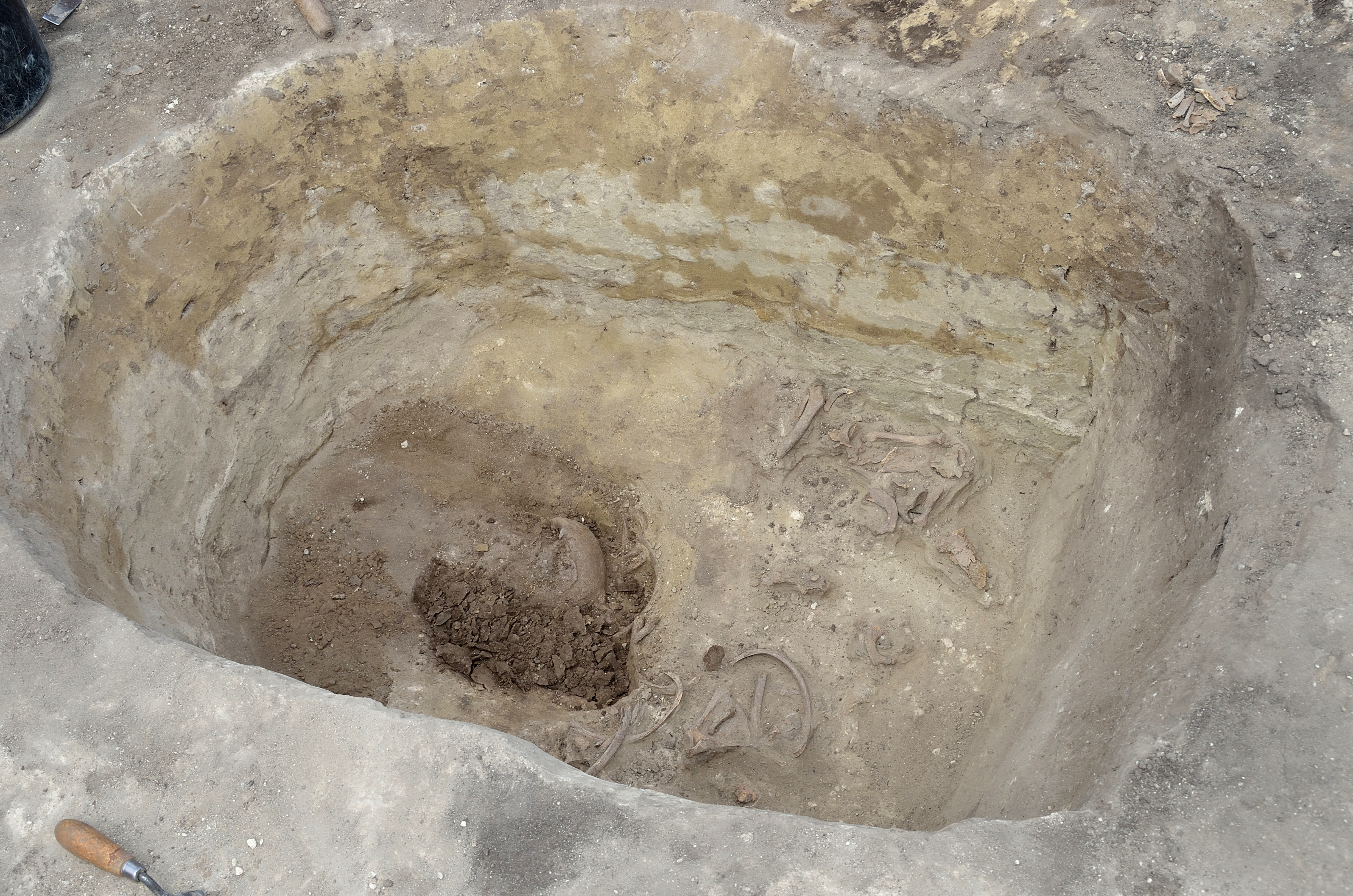 2015 and 2016 there was an archaeological excavation of graves of Eurasian Avars at Podersdorf am See, Burgenland.